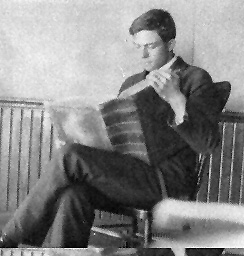 Young Milton H. Erickson